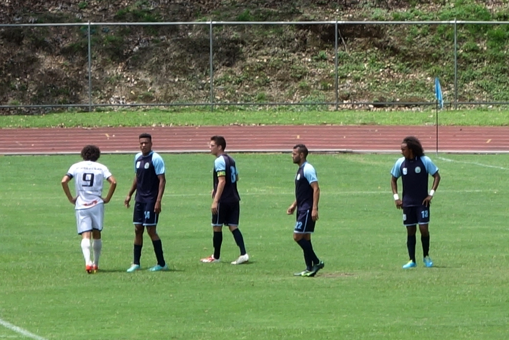 Players from CF Universidad de Costa Rica (dark blue) and AS Puma Generaleña (white) during the first final of Liga de Ascenso Verano 2013 at Estadio Ecológico in Montes de Oca in Costa Rica